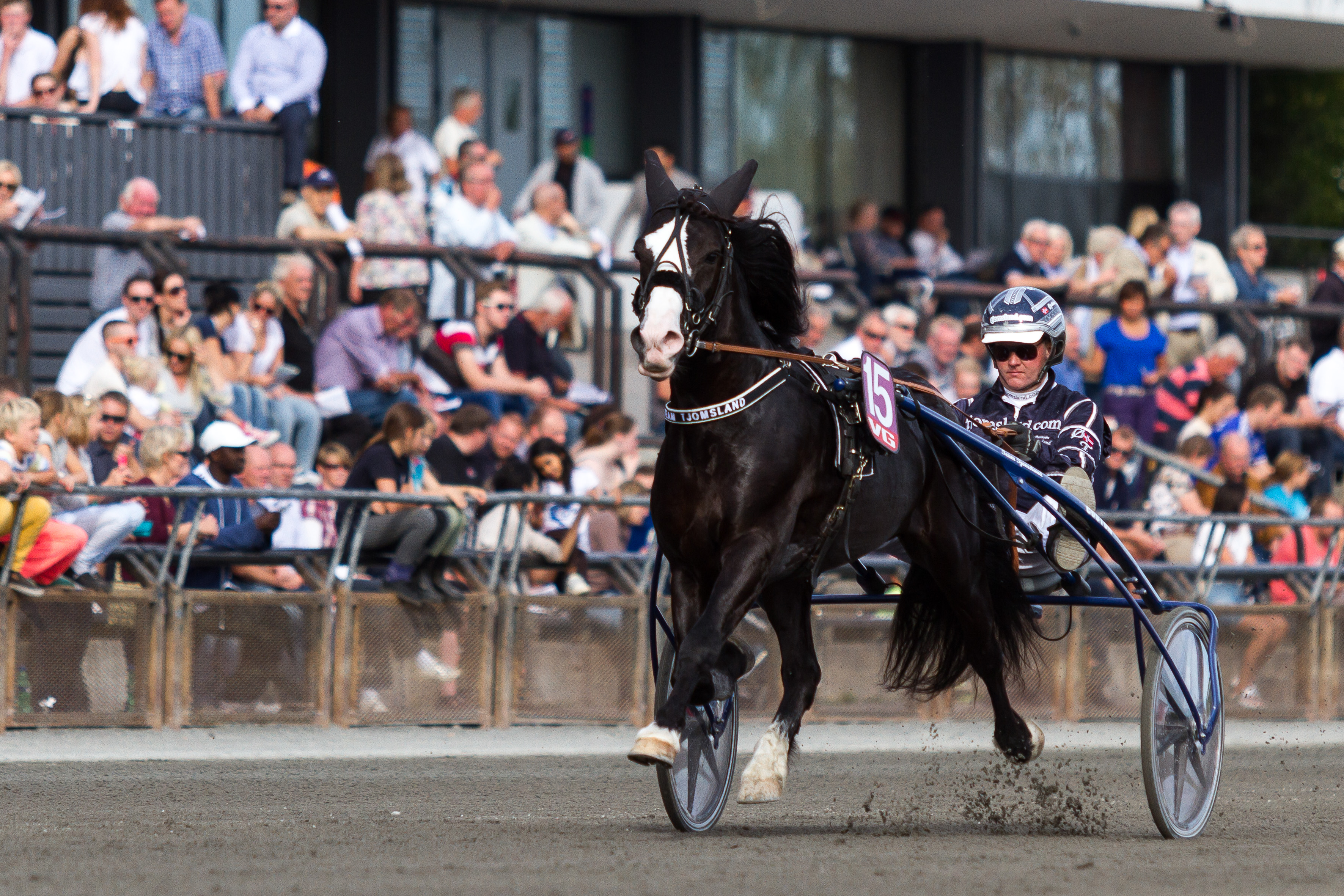 Tekno Odin and Øystein Tjomsland wins Trygve Diskeruds minneløp at Bjerke Travbane 2013-09-08.